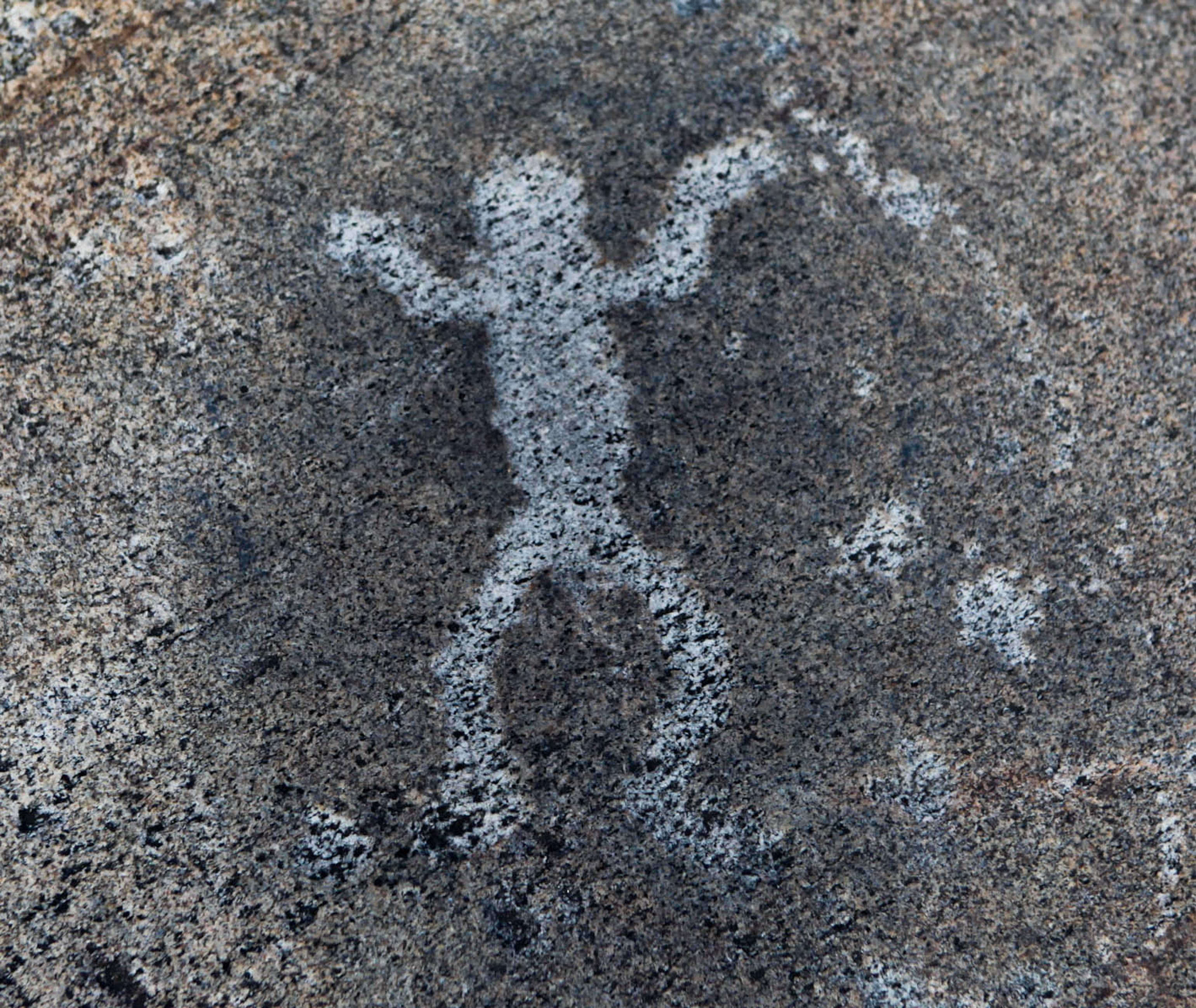 Petroglyphs in Zalavruga